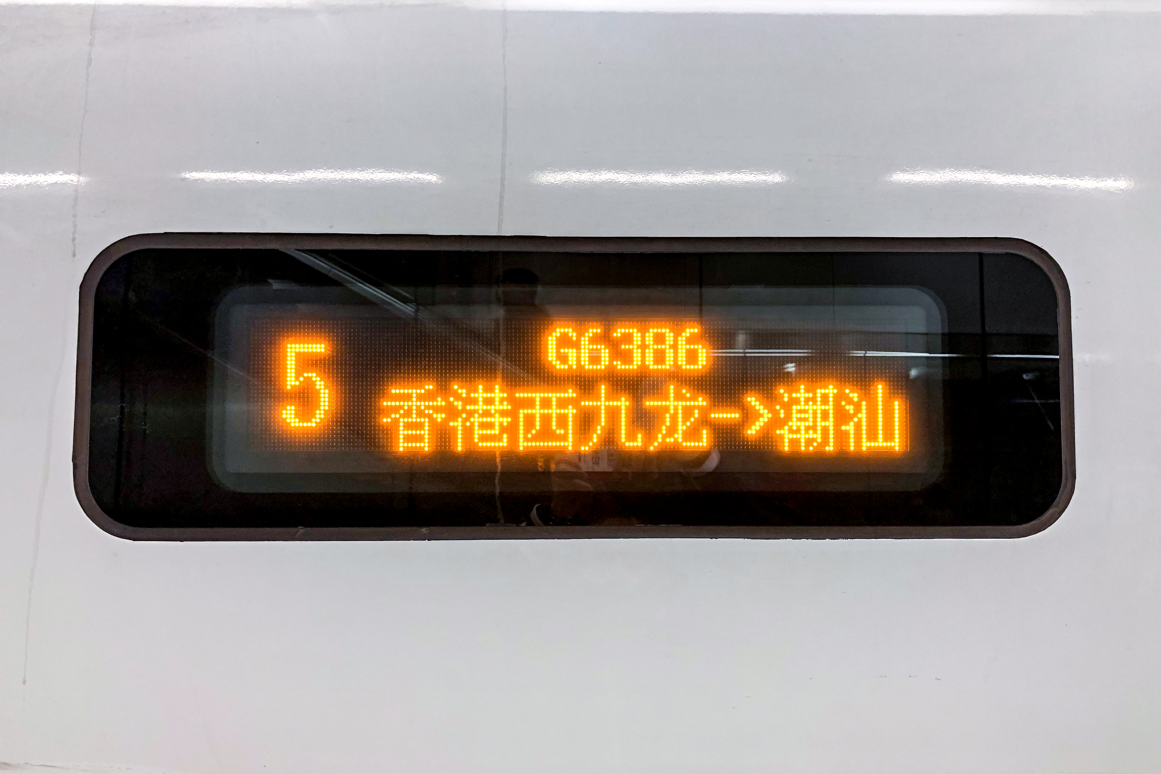 Its preceding train is G5613, using CRH1A-A.